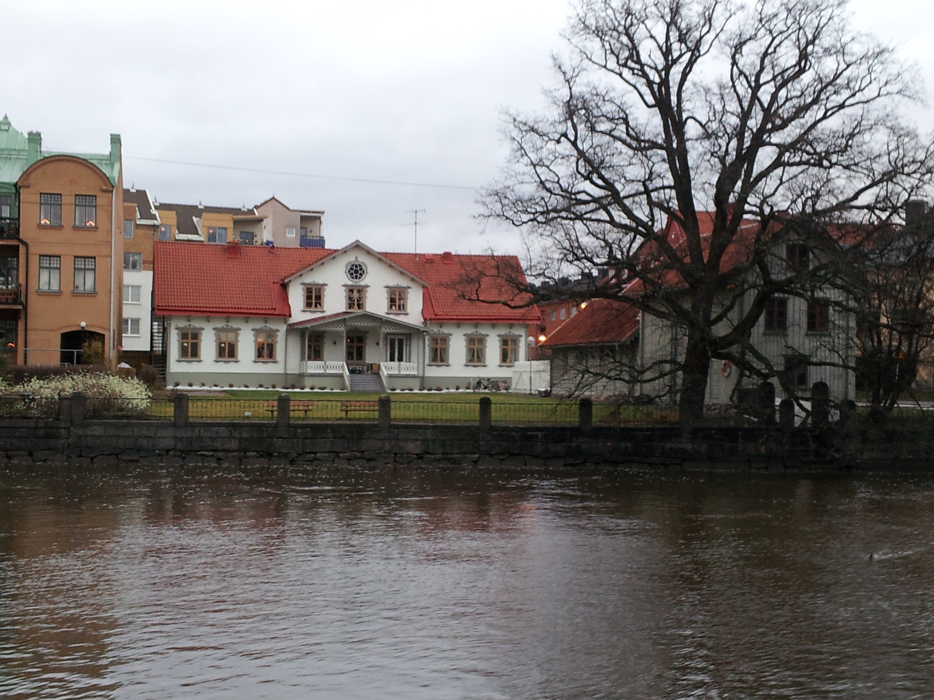 Högströmska gården, a 1900th century house in Örebro Sweden